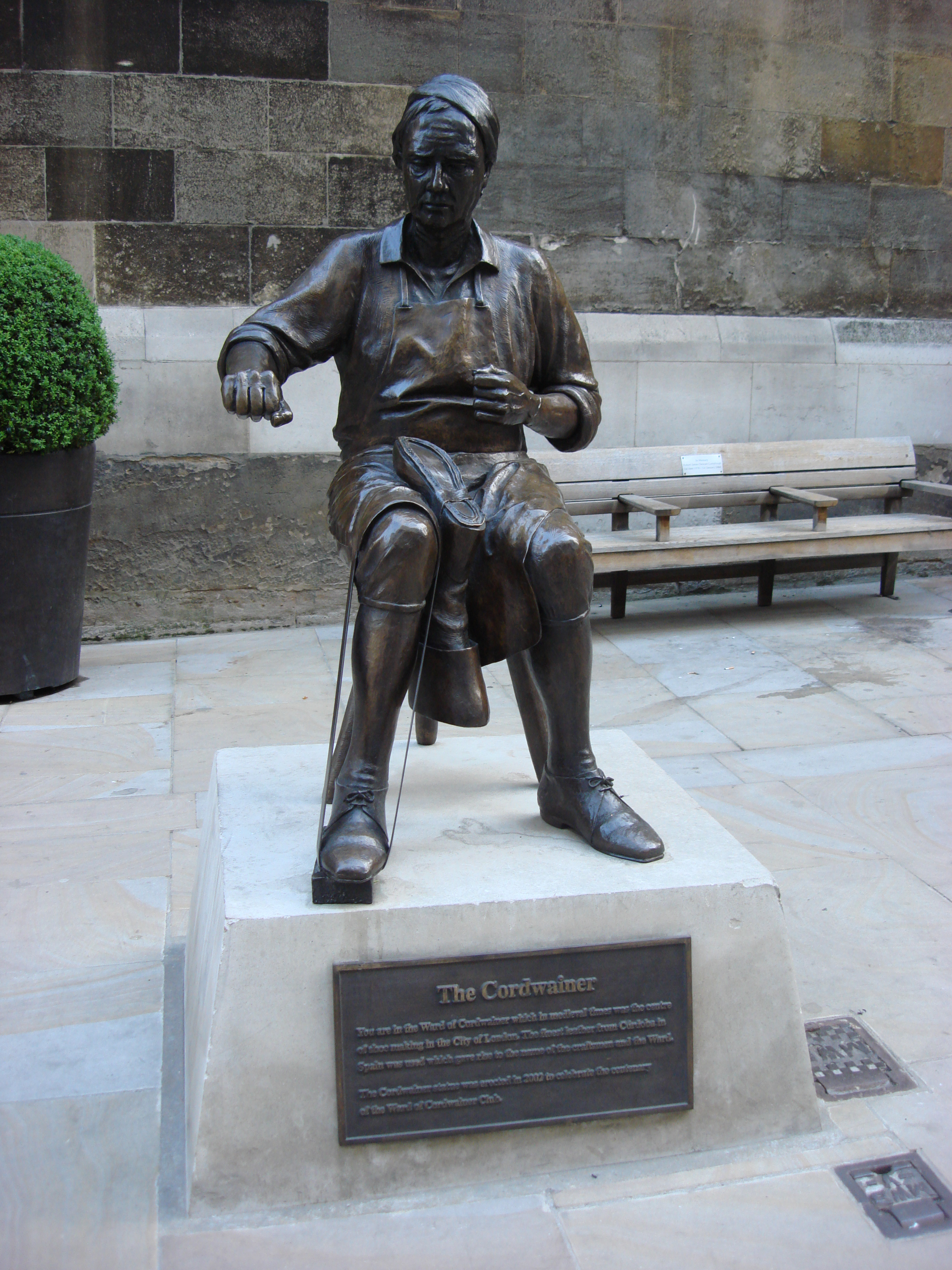 Cordwainer statue on Watling street, in the Cordwainer ward of the City of London, which is historically where most cordwainers lived and worked.